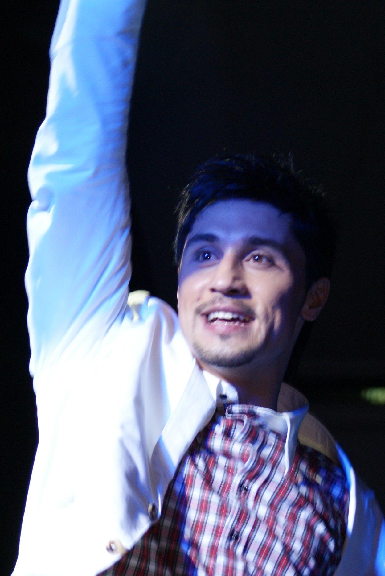 The winner of the Eurovision Song Contest - Belgrade 2008.